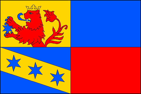 Municipal flag of Josefův Důl village, Mladá Boleslav District, Czech Republic.